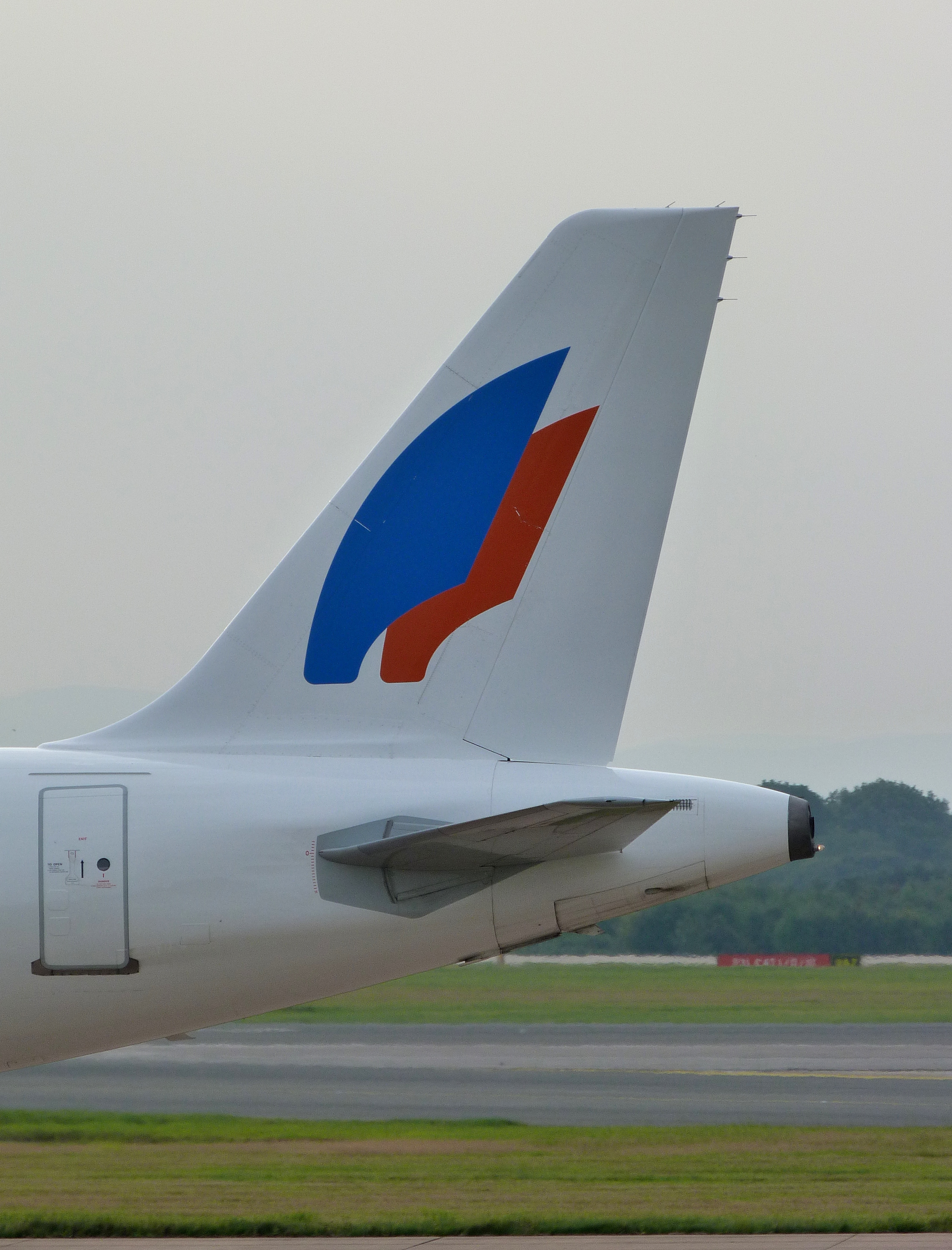 SX-SMV Airbus A320-231 Fly Hellas